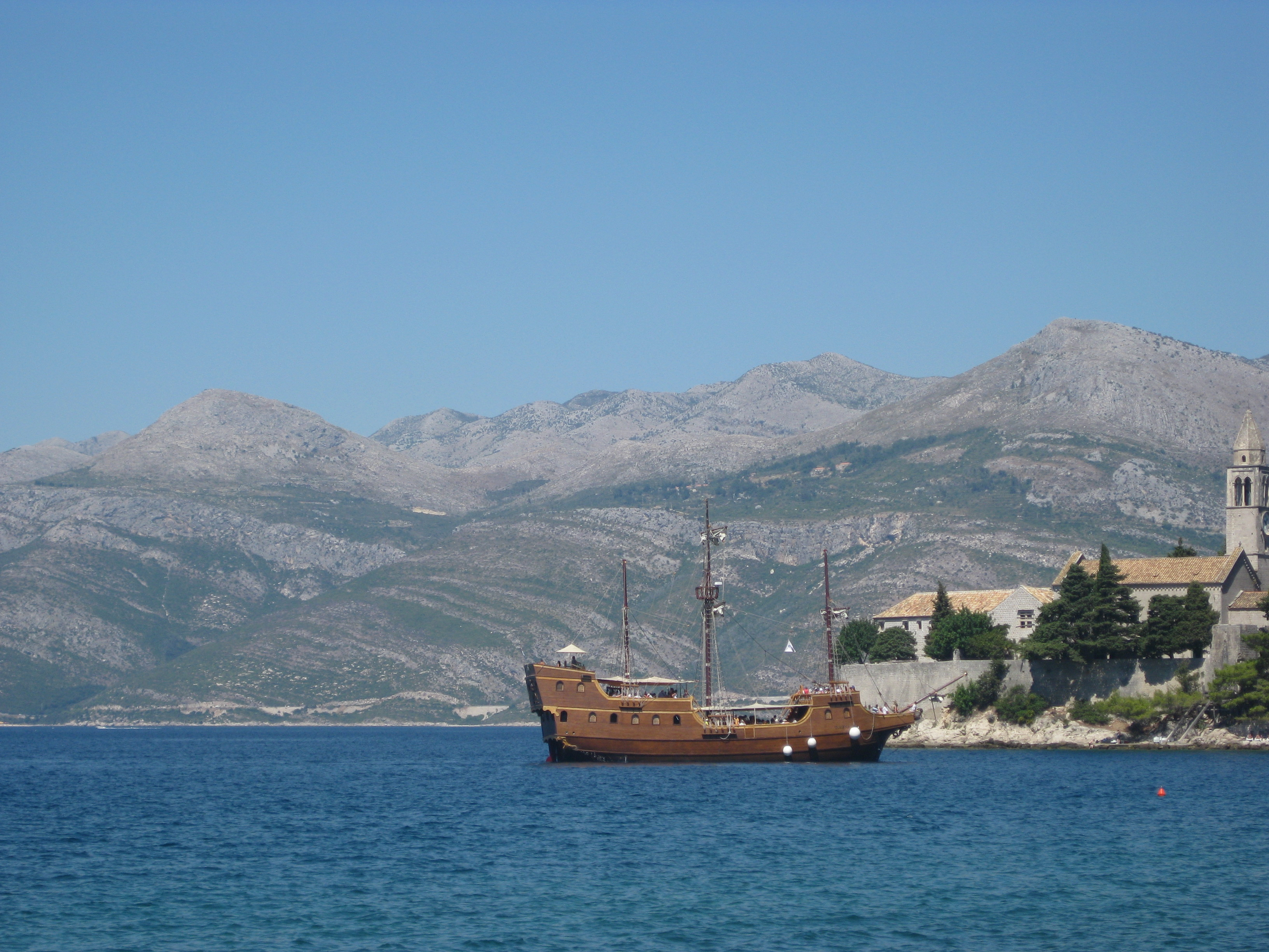 Contemporary replica of Dubrovniks carrack